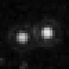 Hubble Space Telescope of the cubewano 66652 Borasisi and its companion Pabu, taken on 15 September 2003.